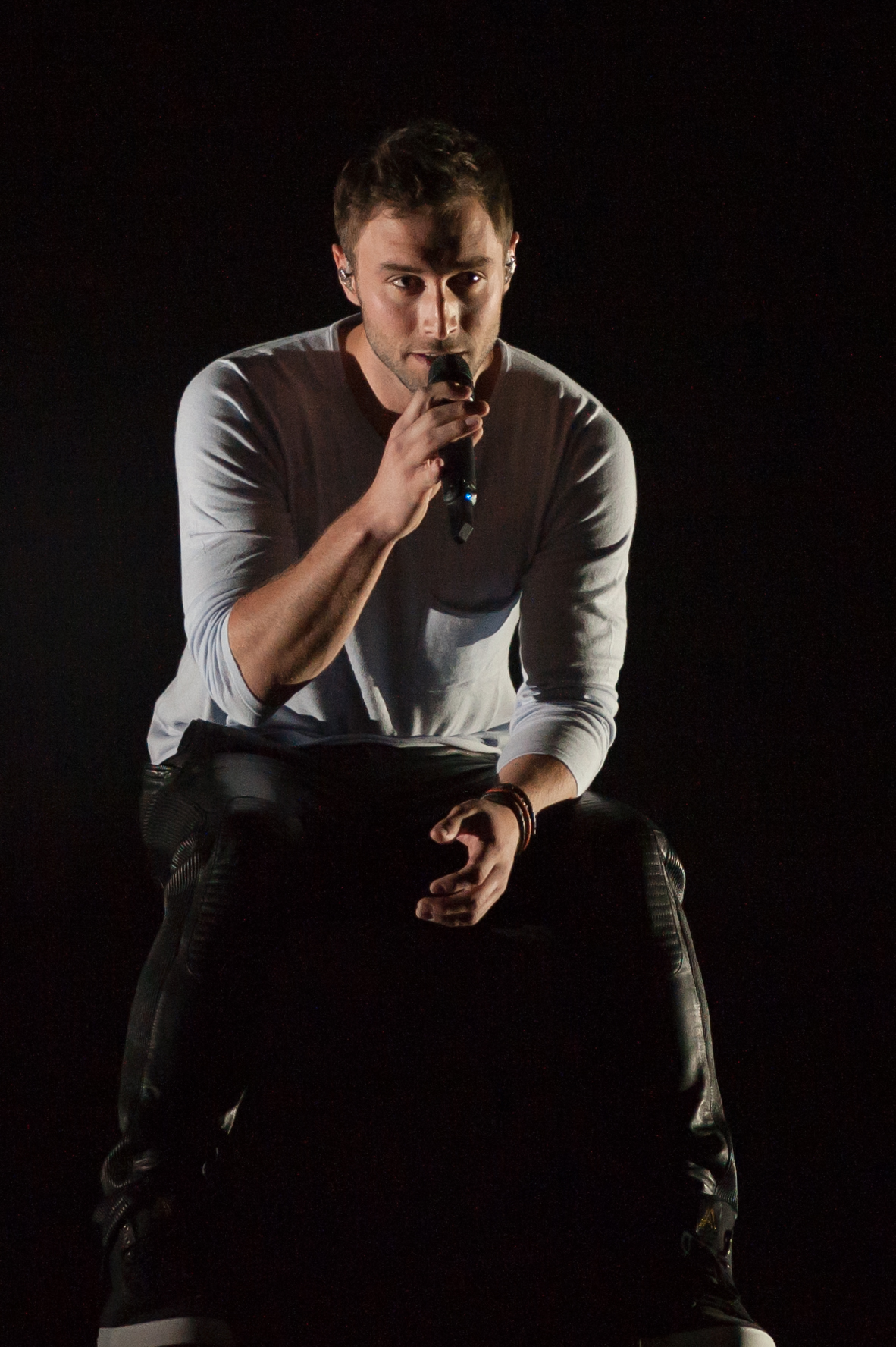 Eurovision Song Contest Vienna 2015: Måns Zelmerlöw